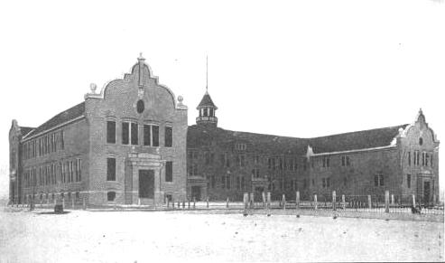 Central School (in 1911) — Iron River, Upper Michigan. On the National Register of Historic Places.